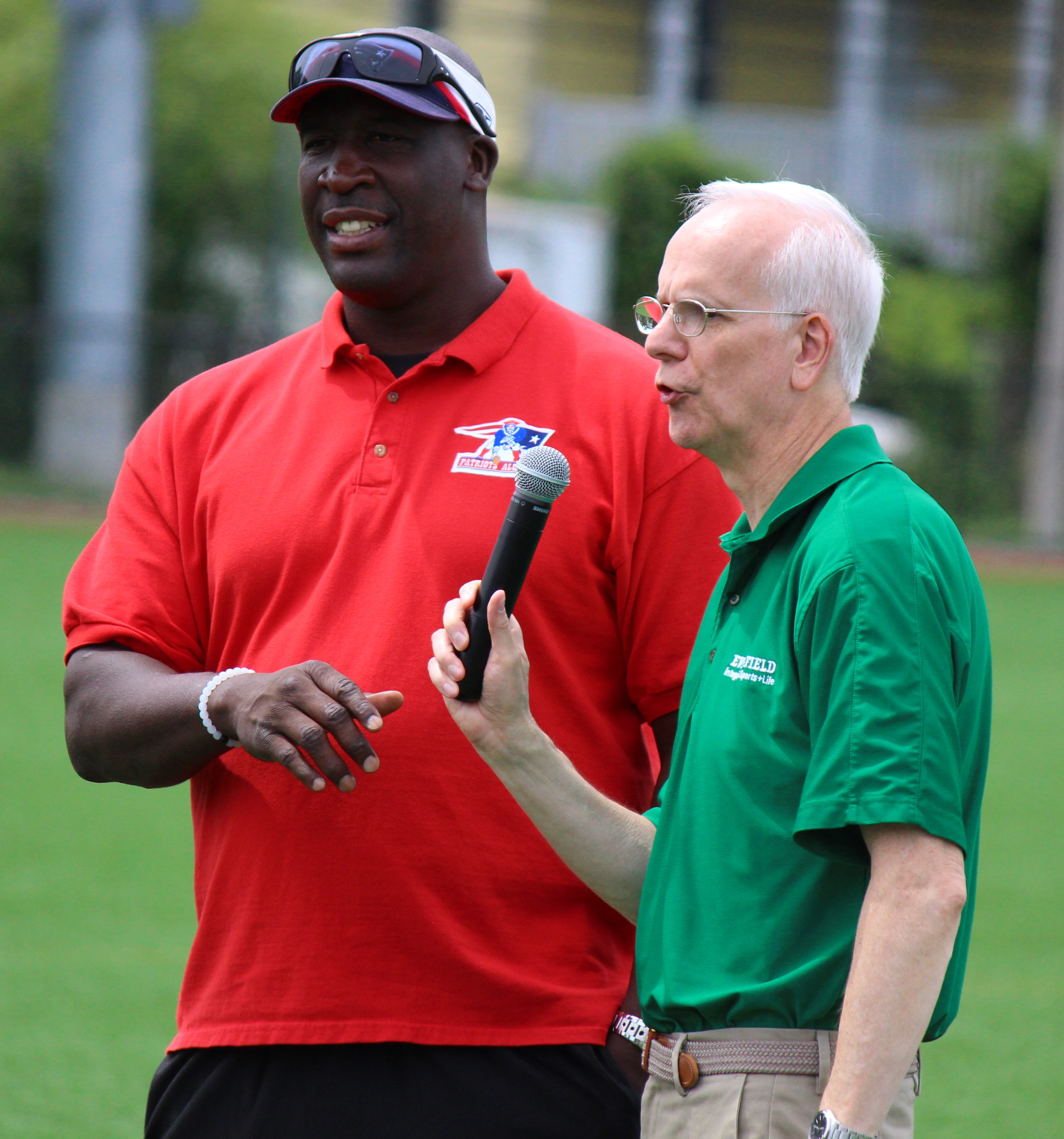 Chuck Wilson interviews Vernon Crawford in Boston, Massachusetts in June 2015